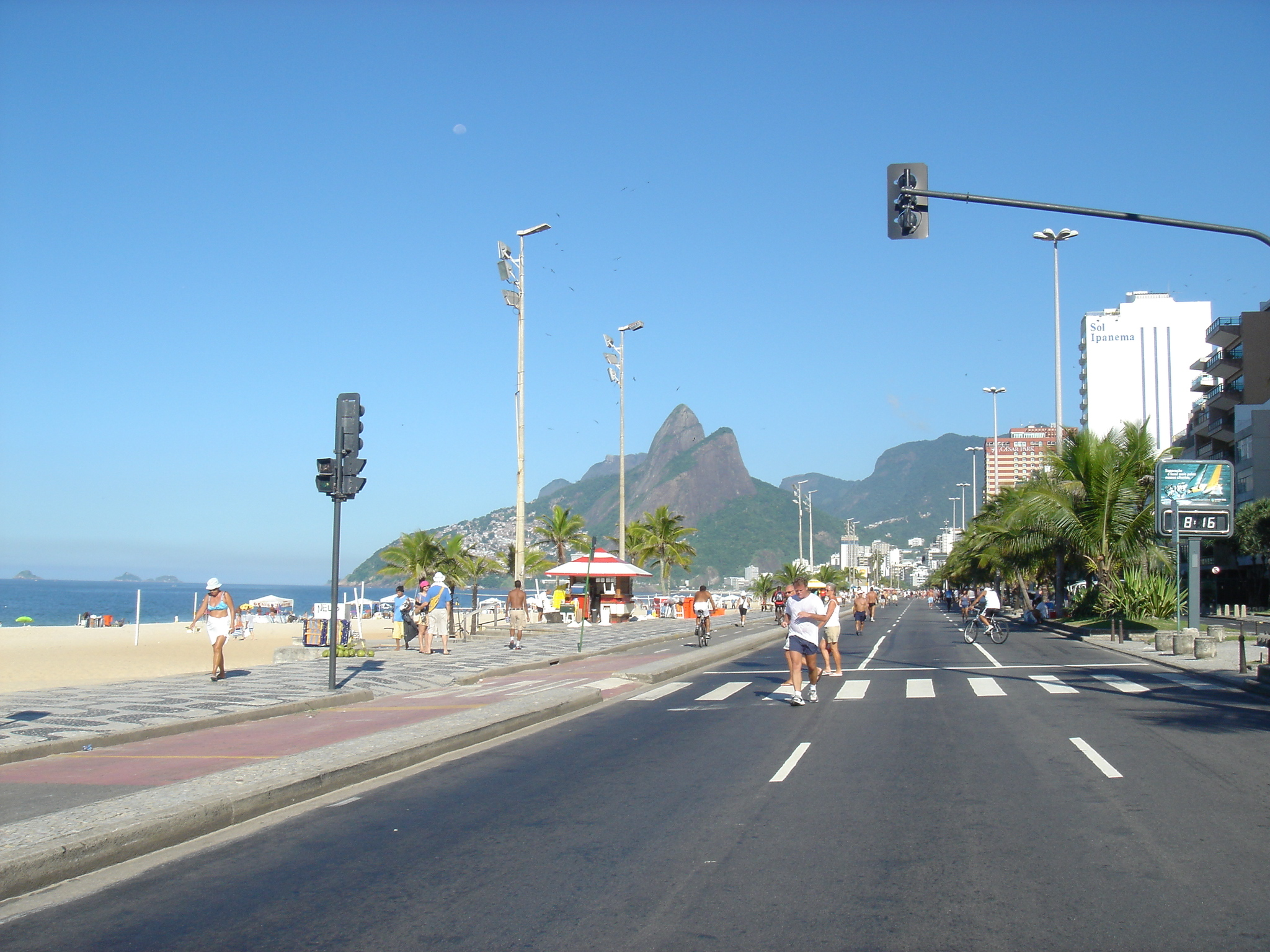 Ipanema Beach.Lagoa Rodrigo de Freitas